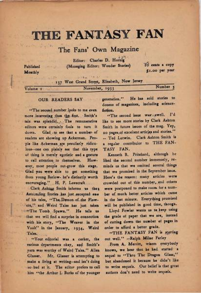 The Fantasy Fan, November 1933